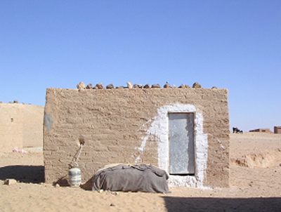 Original caption states "Saharawi refugee dwelling in Smara camp", located in southwestern Algeria, Sahara Desert.